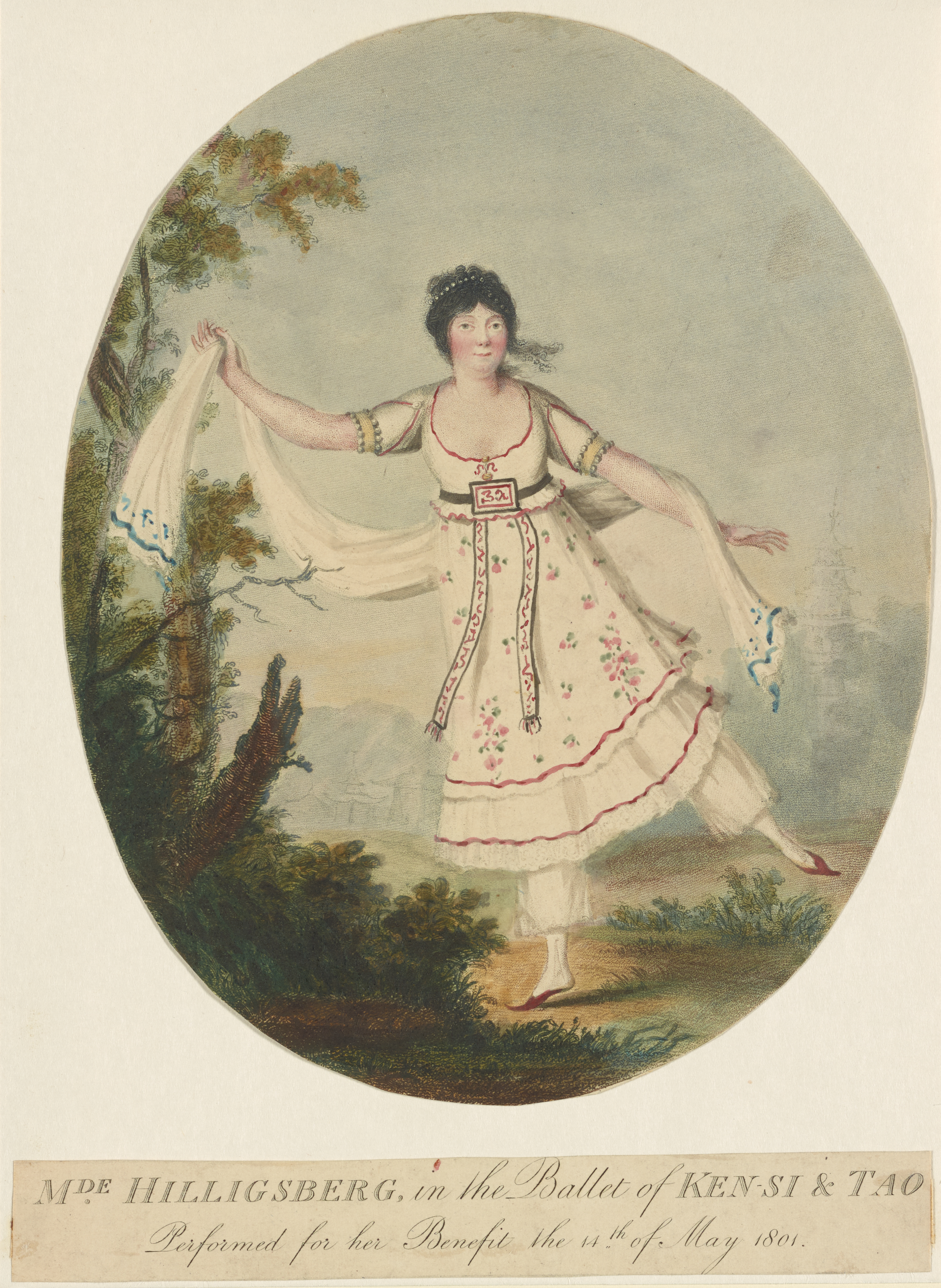 Full-length to the left, facing front, left leg extended to the right, holding scarf; wearing calf-length dress, long drawers.